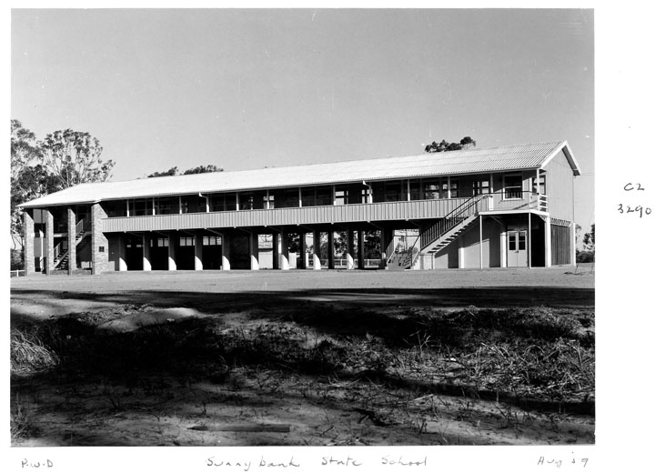 Sunnybank State School - Brisbane. (Original photo caption makes reference to Public Works Department)